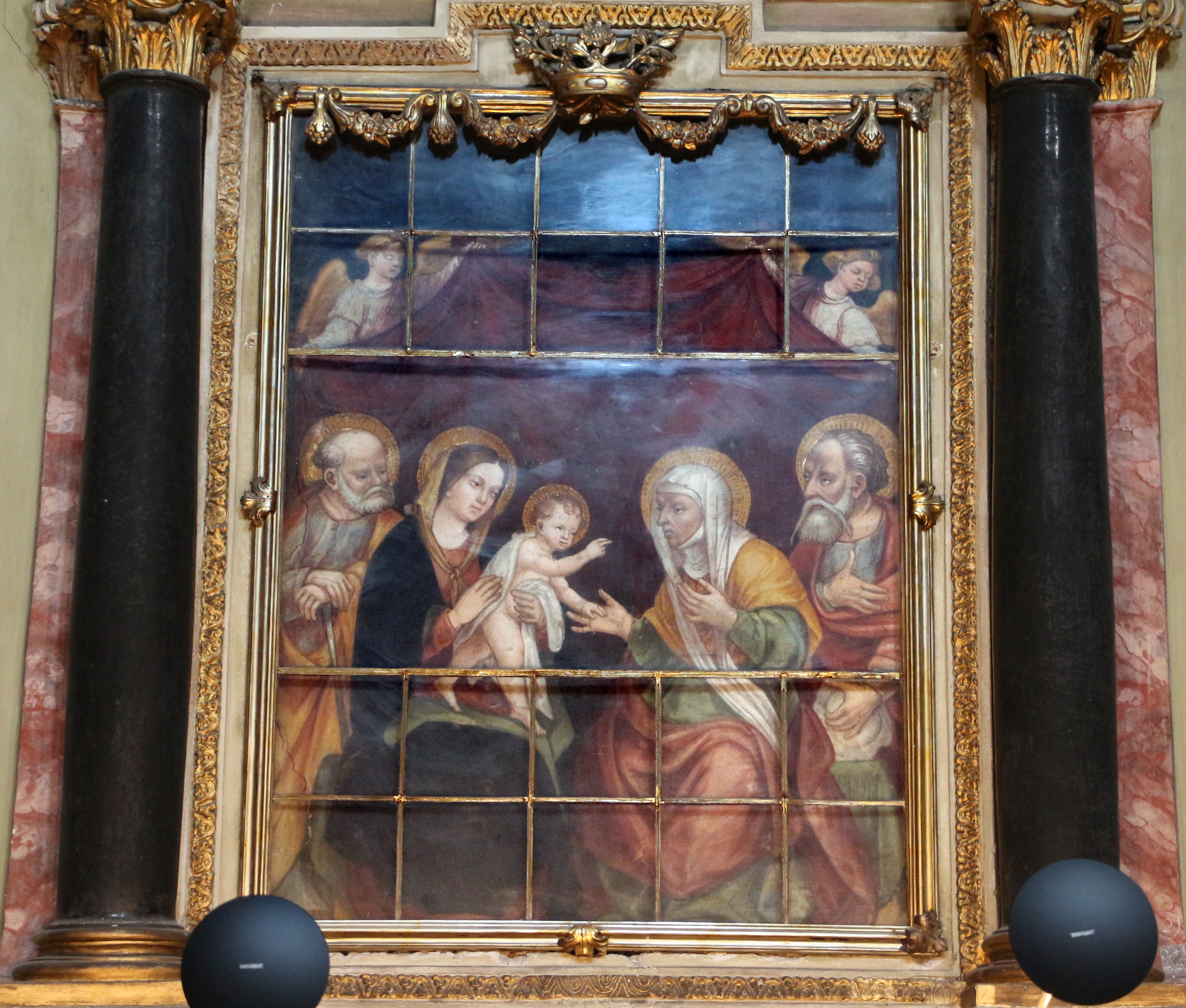 Carmine (Bergamo) - interior